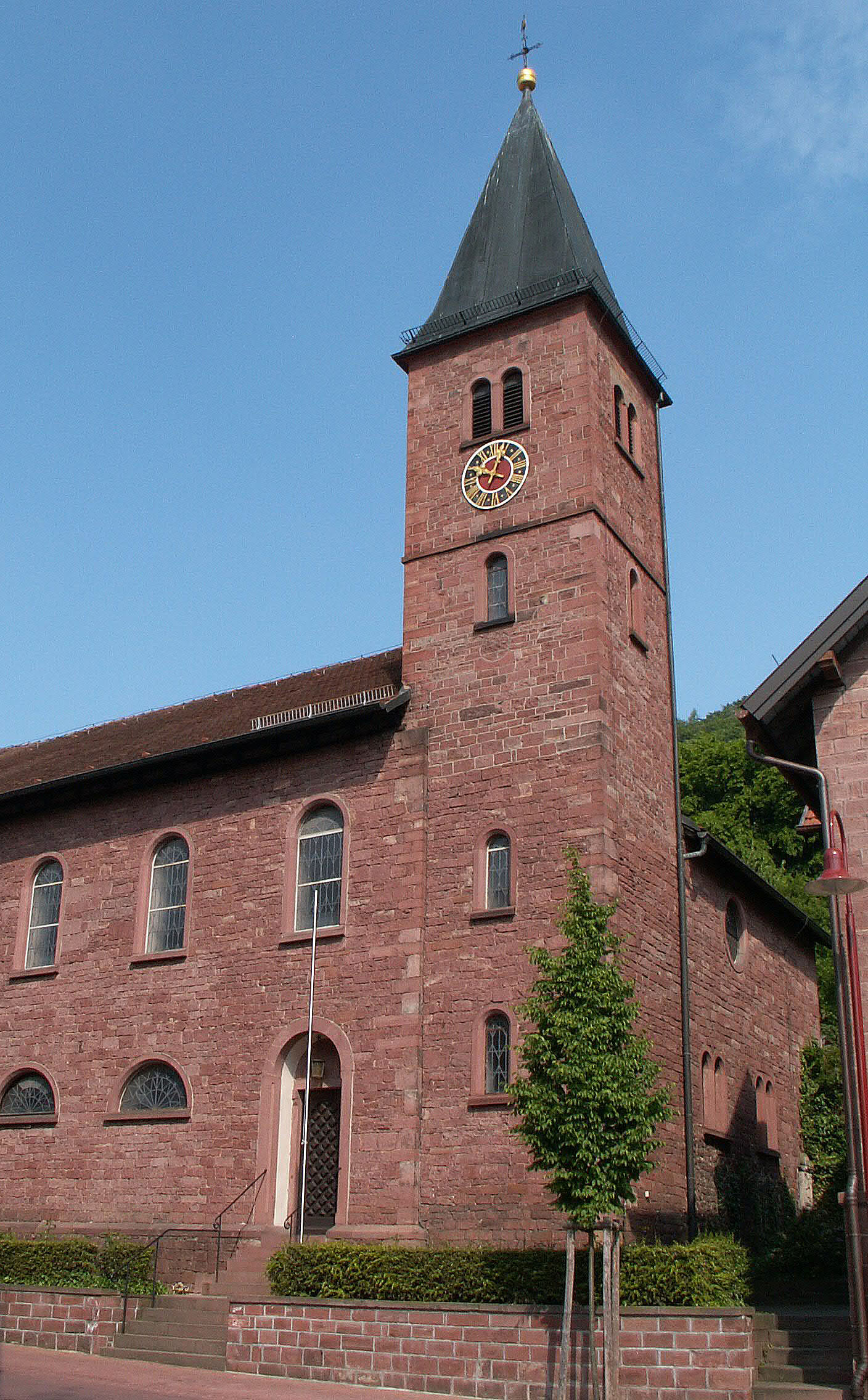 Kirche in Hasloch